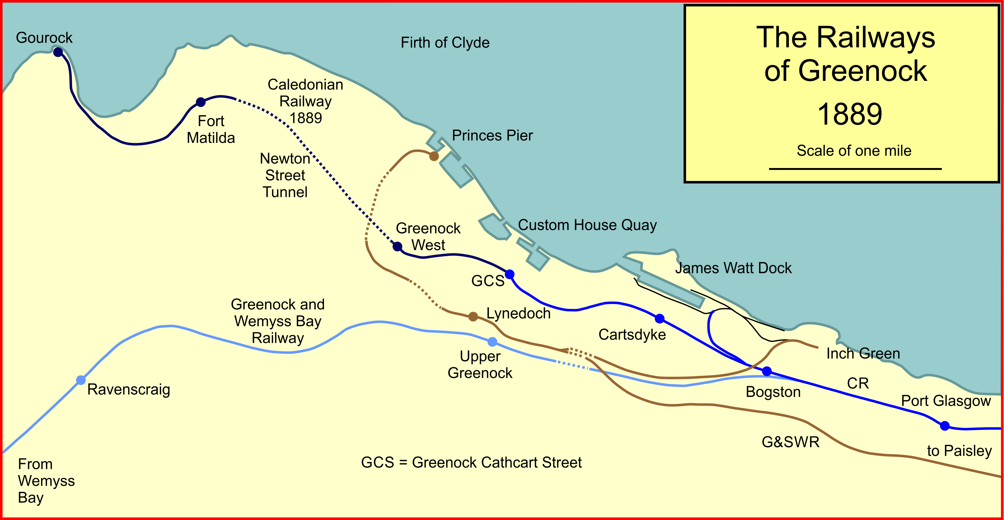 Railways in Greenock, Scotland, in 1889